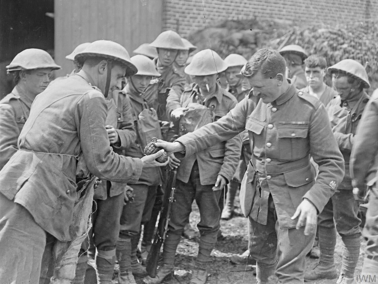 A Regimental Sergeant Major of 11th Royal Scots hands out Mills bombs to a raiding party at Meteren. According to the original caption, however, this raid "was abandoned just when [the] party was ready to start owing to [the] leader being killed".